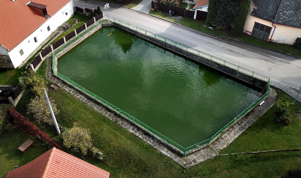 Protected fire reservoir in Rácov, part of Batelov, Czech Republic.